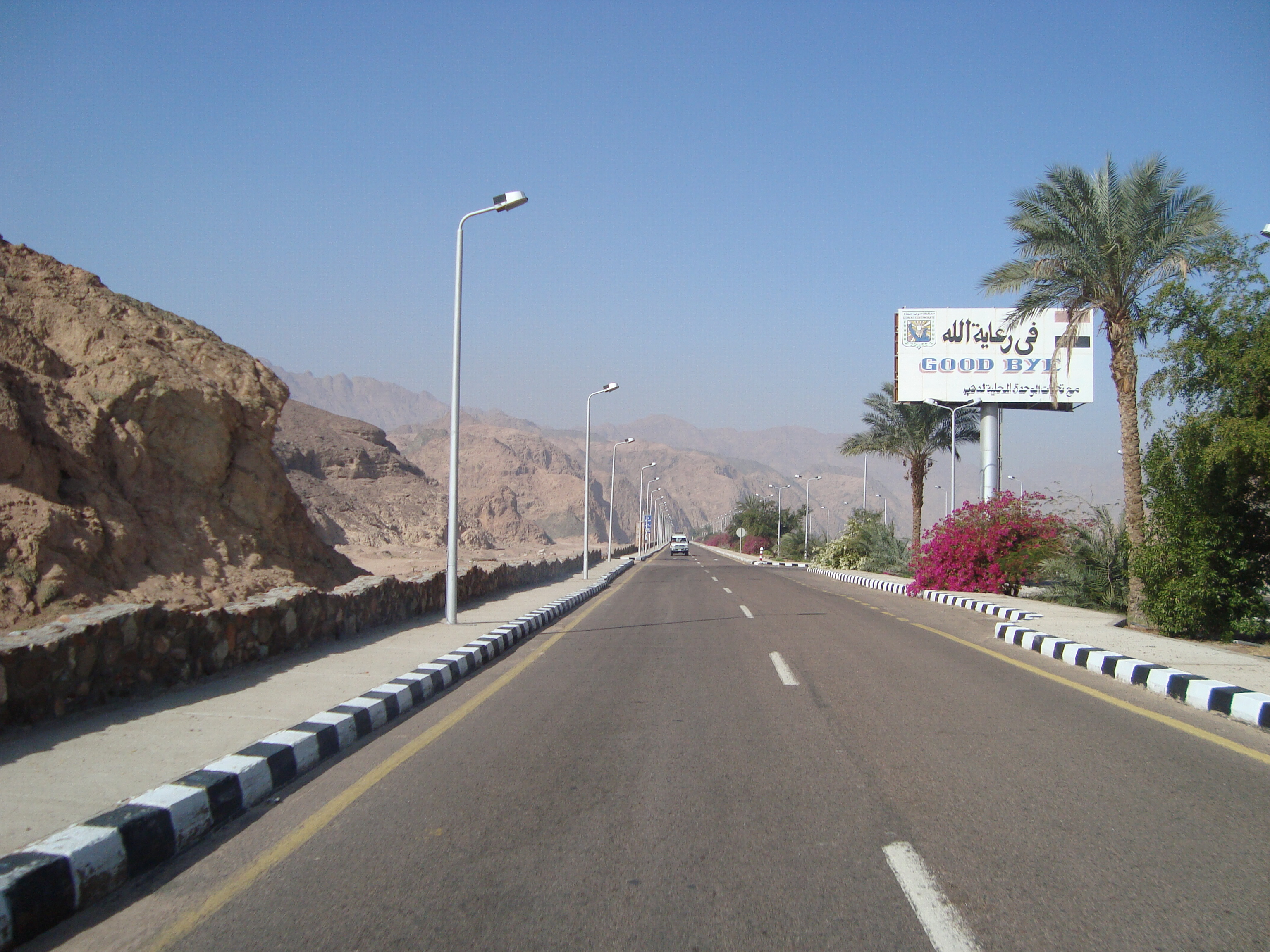 Sharm Al Sheikh - Newabaa road in Dahab